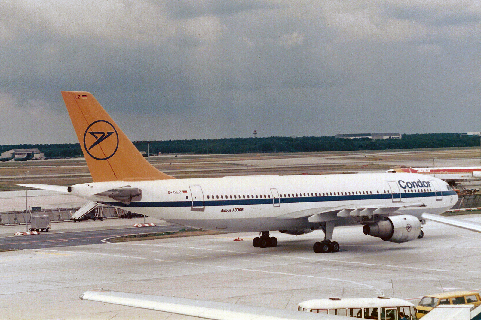 Frankfurt am Main (Rhein-Main AB) (FRA / EDDF / FRF) Germany 7.1986 Leased from Hapag-Lloyd with non-standard cheatline.This aircraft crashed south of Kathmandu, Nepal, on September 28, 1992, while operating for Pakistan International as AP-BCP.